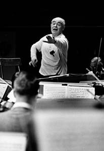 Paul Klecki (Paul Kletzki)